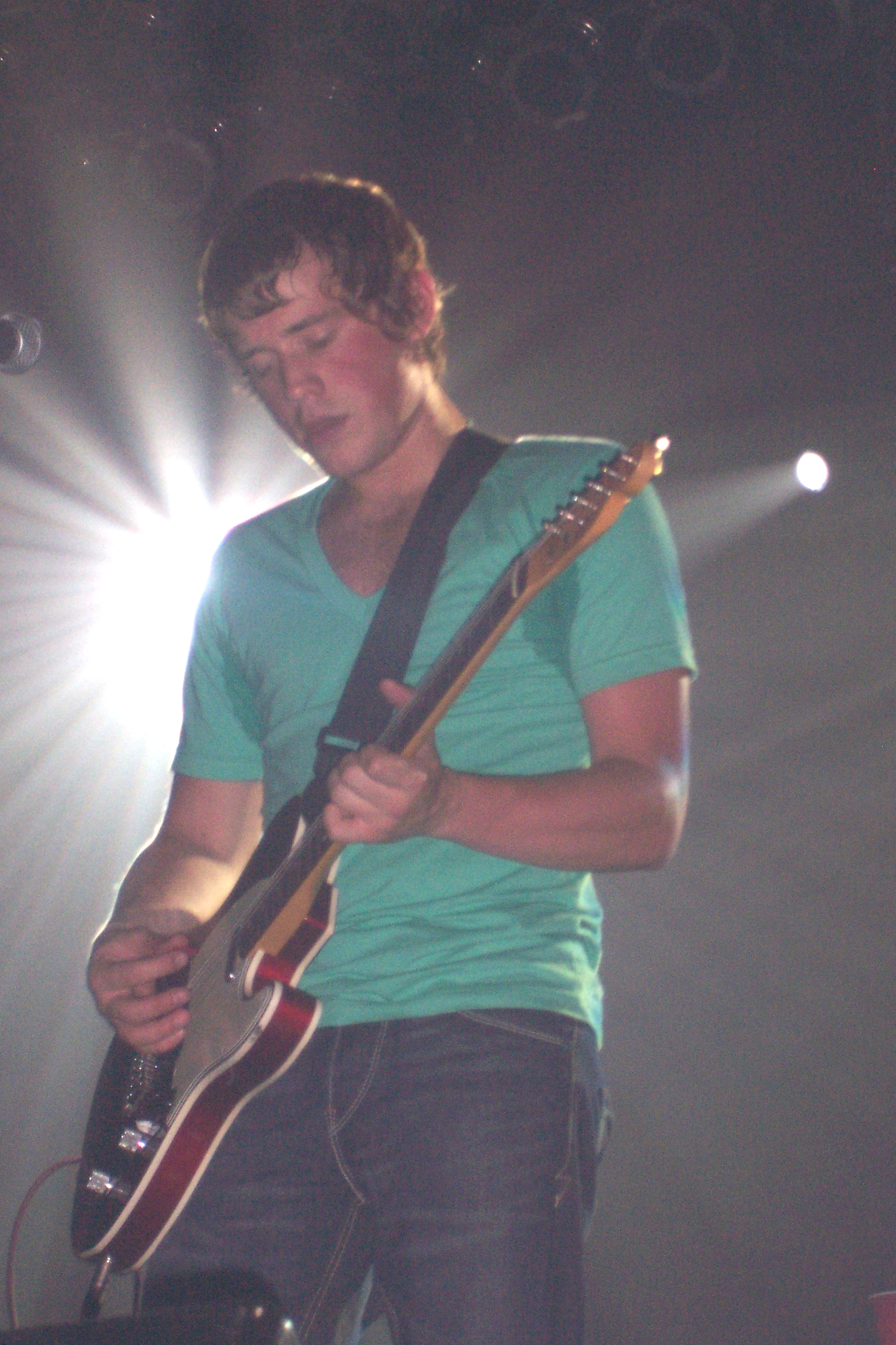 Jamie Cook - Arctic Monkeys @ Roseland